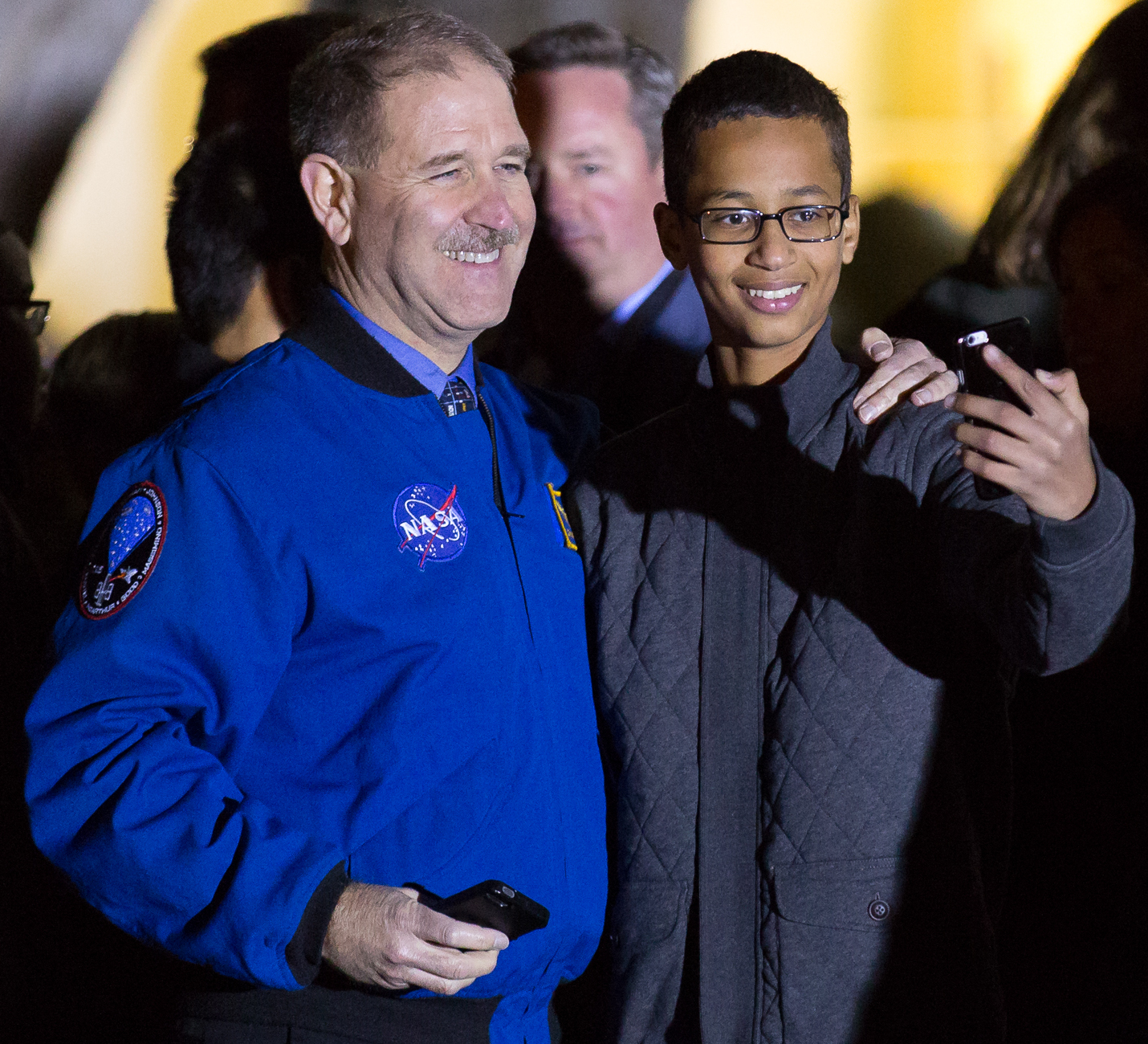 NASA Astronaut John M. Grunsfeld with Texas student Ahmed Mohamed at the 2015 White House Astronomy Night. Photo by Harrison Jones of hjonesphotography at 2015 White House Astronomy Night. Photo not from Flickr, flickr link simply provided for more information on photograph. Photo provided by email to uploader, along with statement of permission via license CC-BY-SA.4.0.